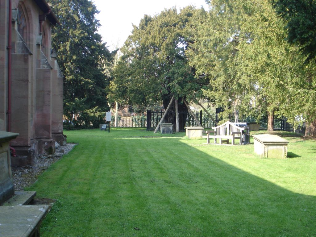 Taken inside the grounds of St. Mary's Church, Overton near Wrexham. The Yew Trees are one of the Seven Wonders of Wales.